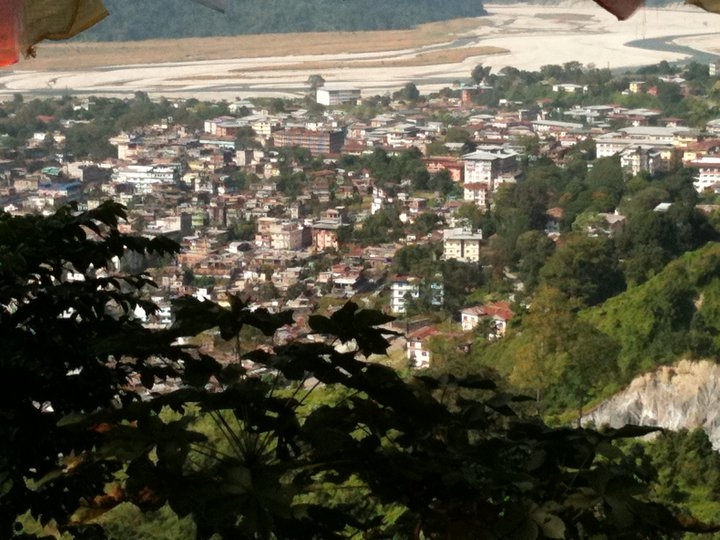 This is a picture taken of Town Jaigaon from the Gumba hill.